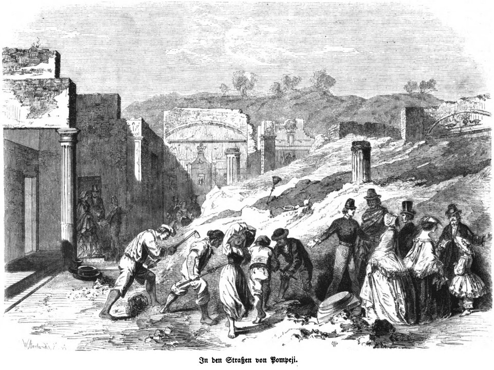 caption: "In den Straßen von Pompeji."